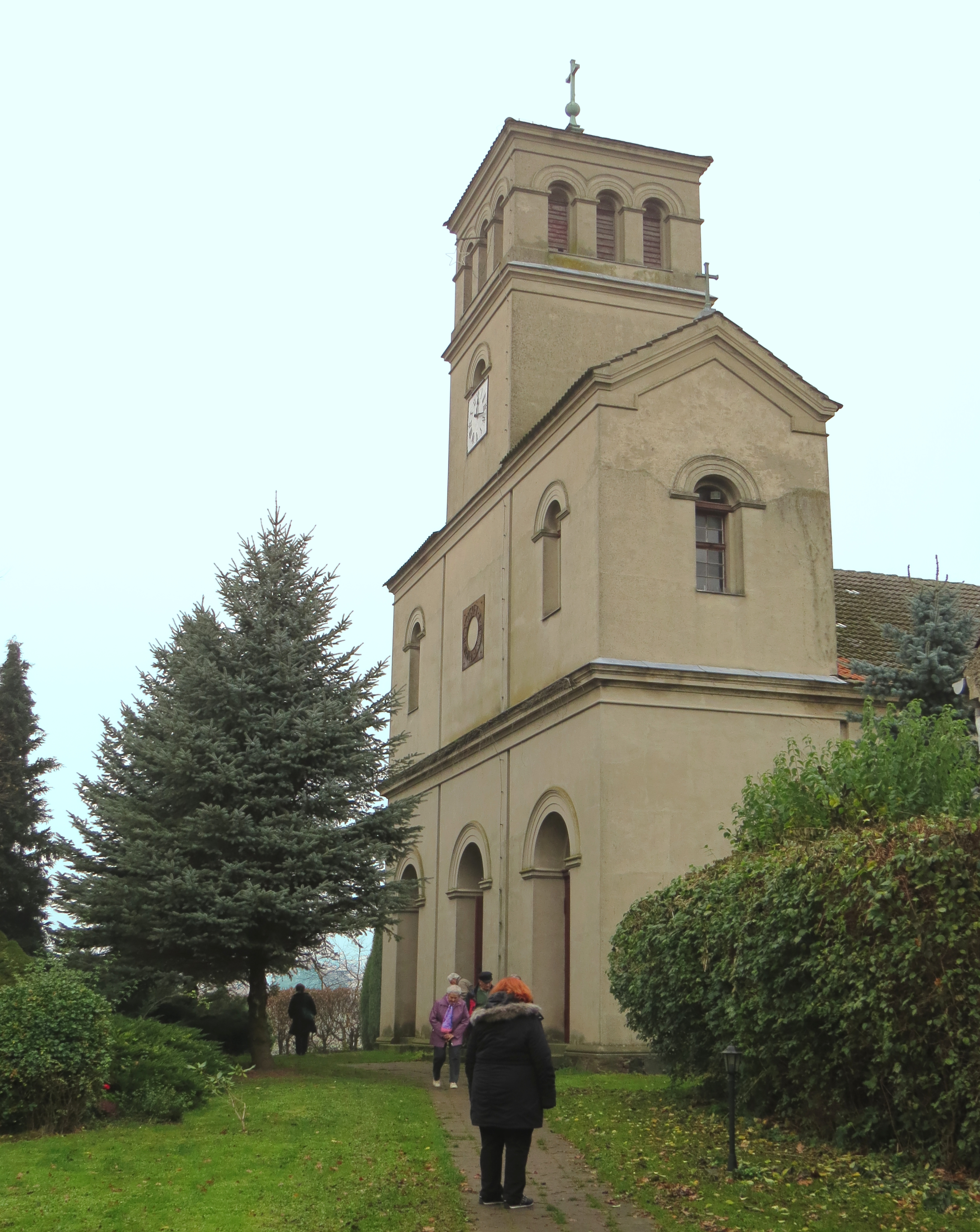 Wuthenow Kirche